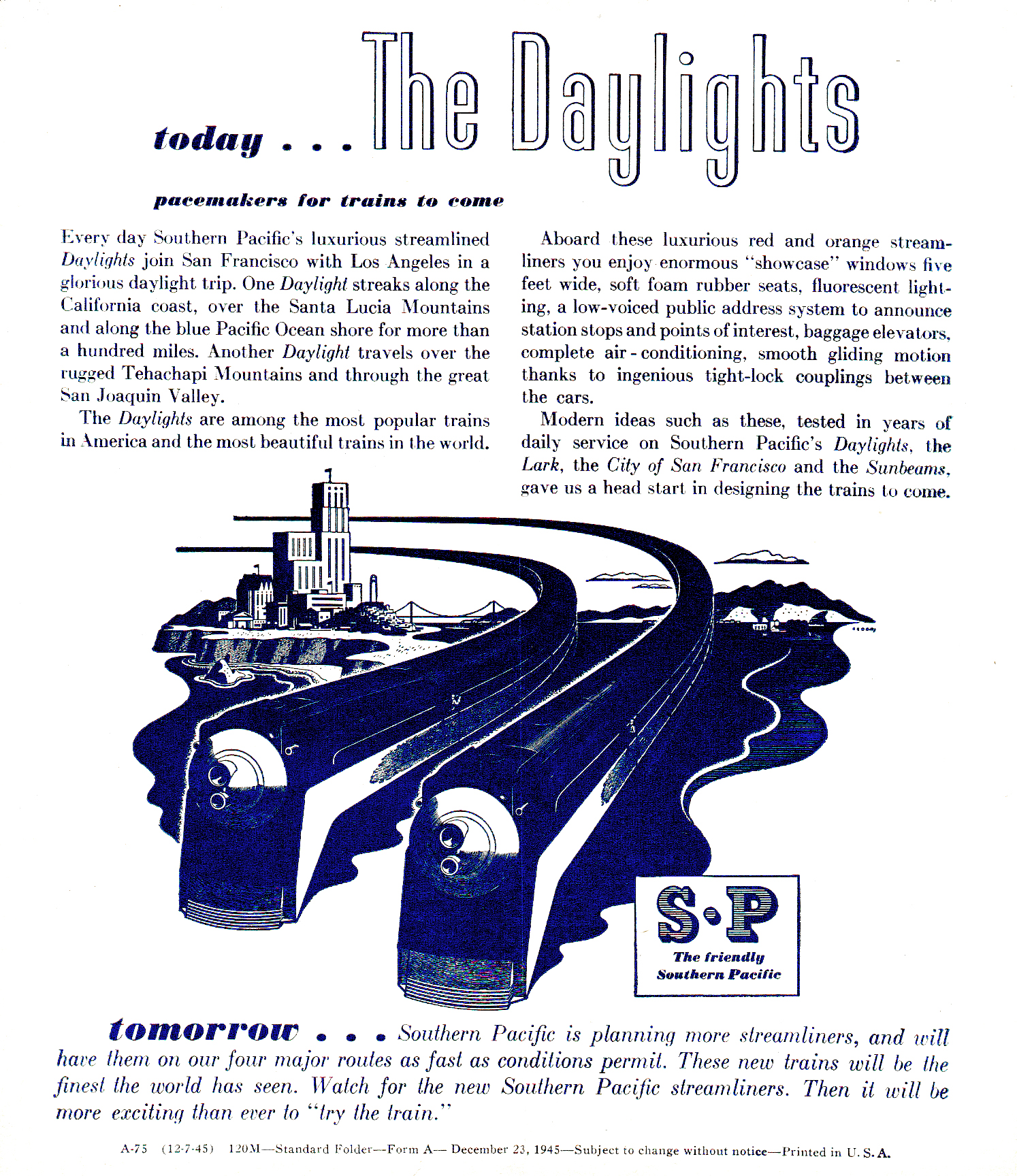 Southern Pacific Railroad Daylights (San Francisco - Los Angeles)